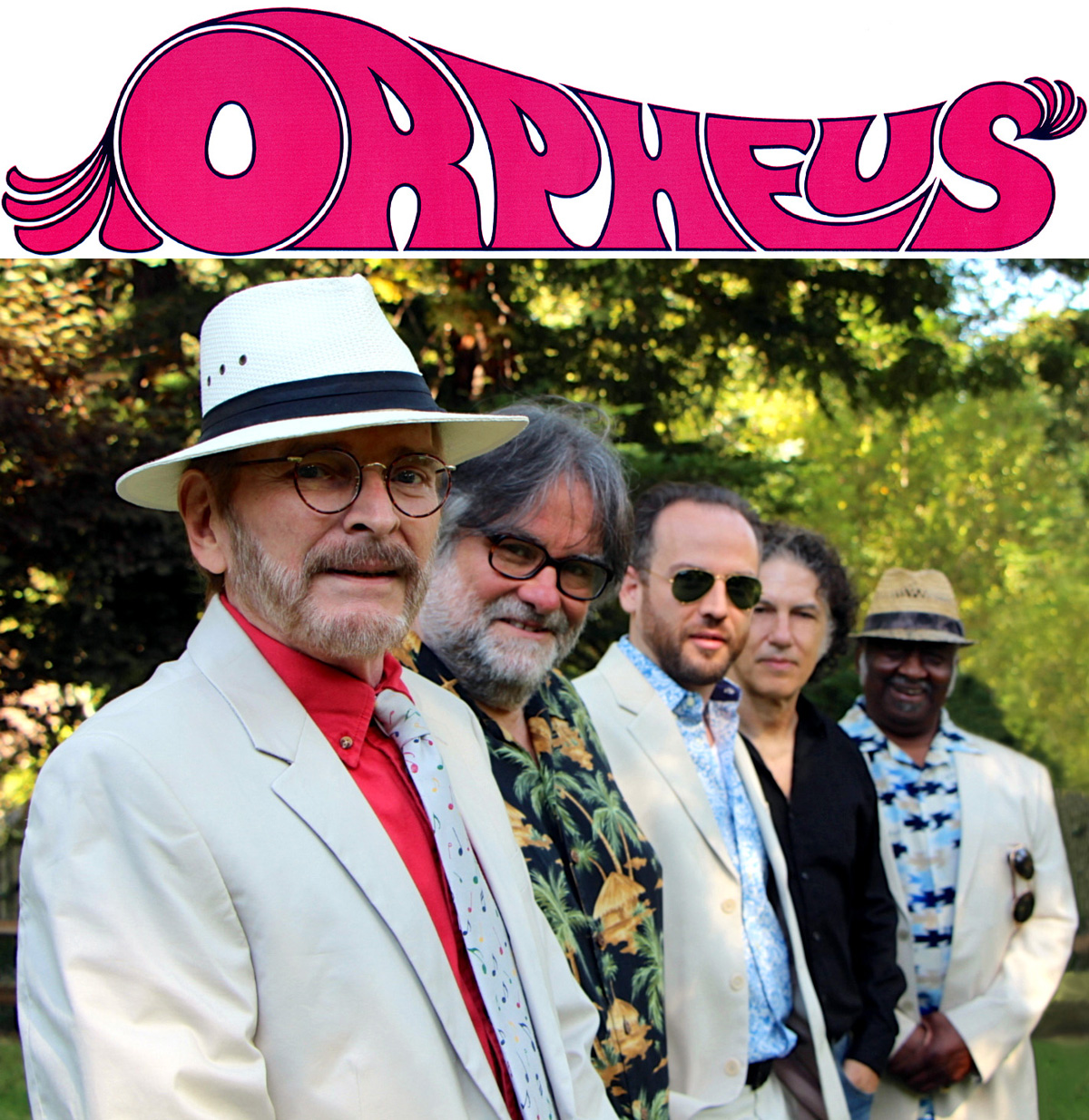 Orpheus (L-R) Bruce Arnold, Elliot Sherman, John Arnold, Howie Hersh, Bernard Purdie (Marin County, 2014)